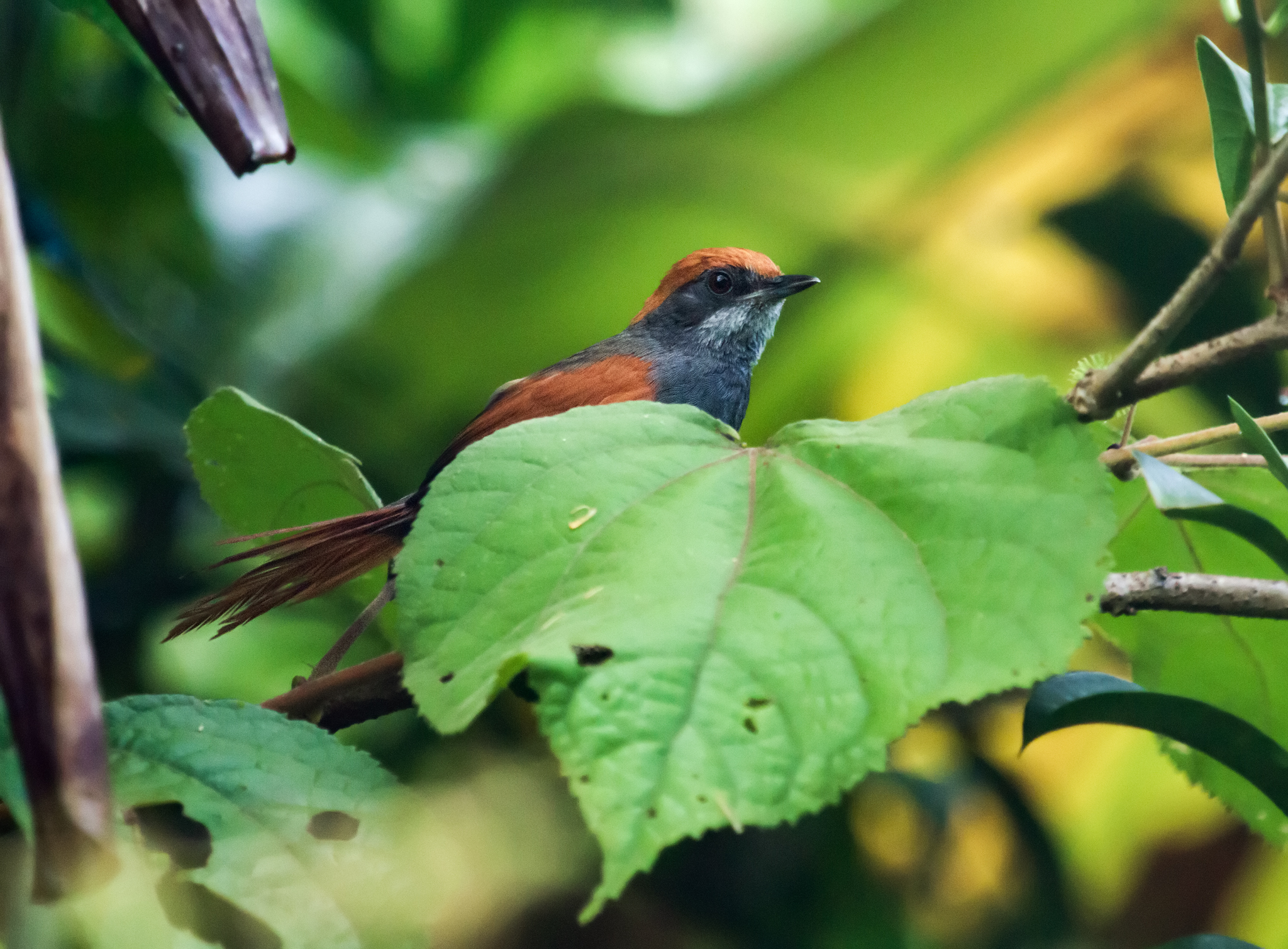 Pinto's Spinetail from Frei Caneca reserve, Pernambuco, Brazil.